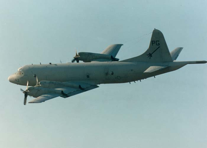 VP-65 P-3C in-flight near Pt. Mugu circa 1995. Photo by Vance Vasquez. Repository: San Diego Air and Space Museum Archive